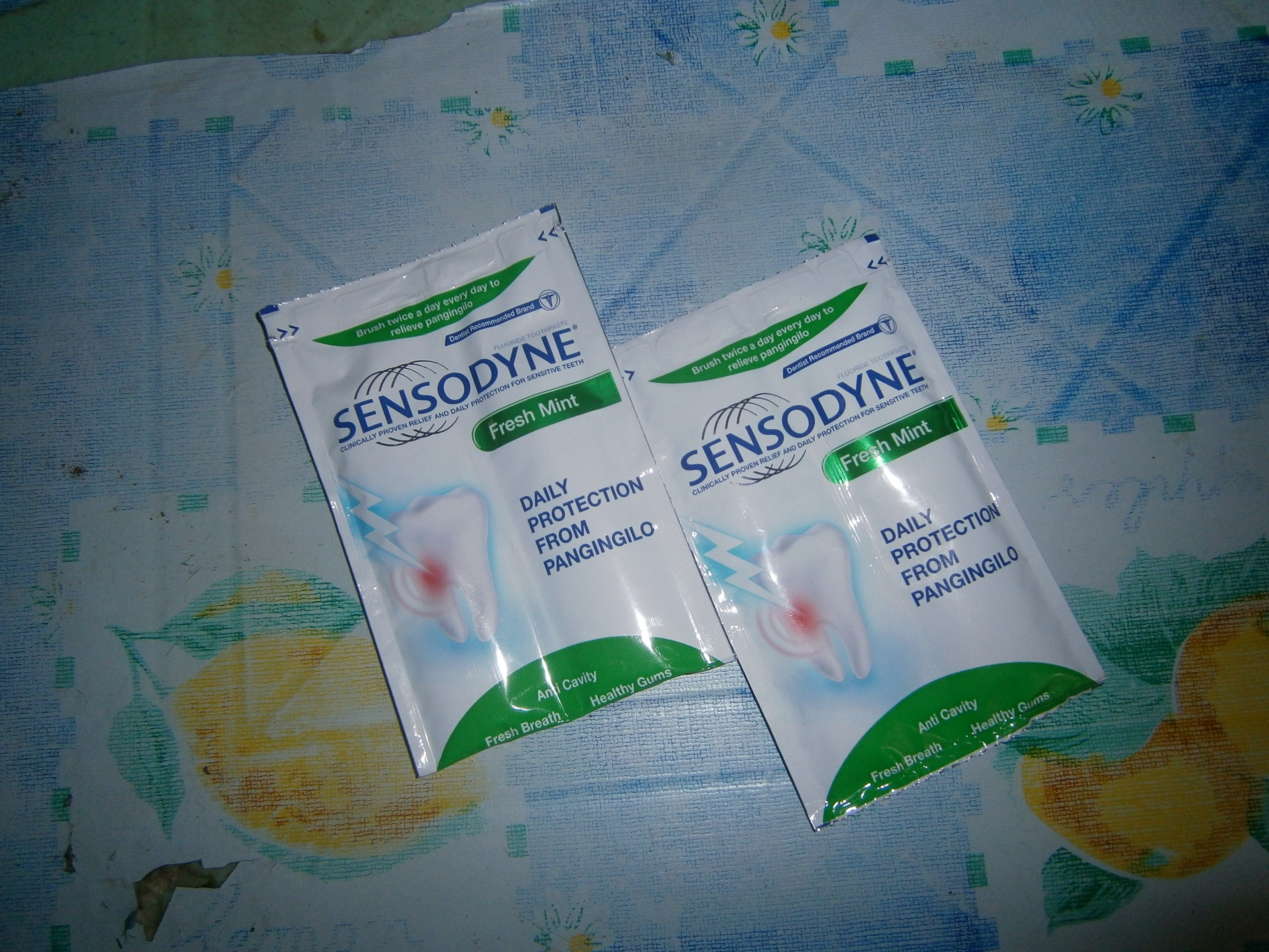 A Sensodyne toothpaste twin sachet marketed in the Philippines.